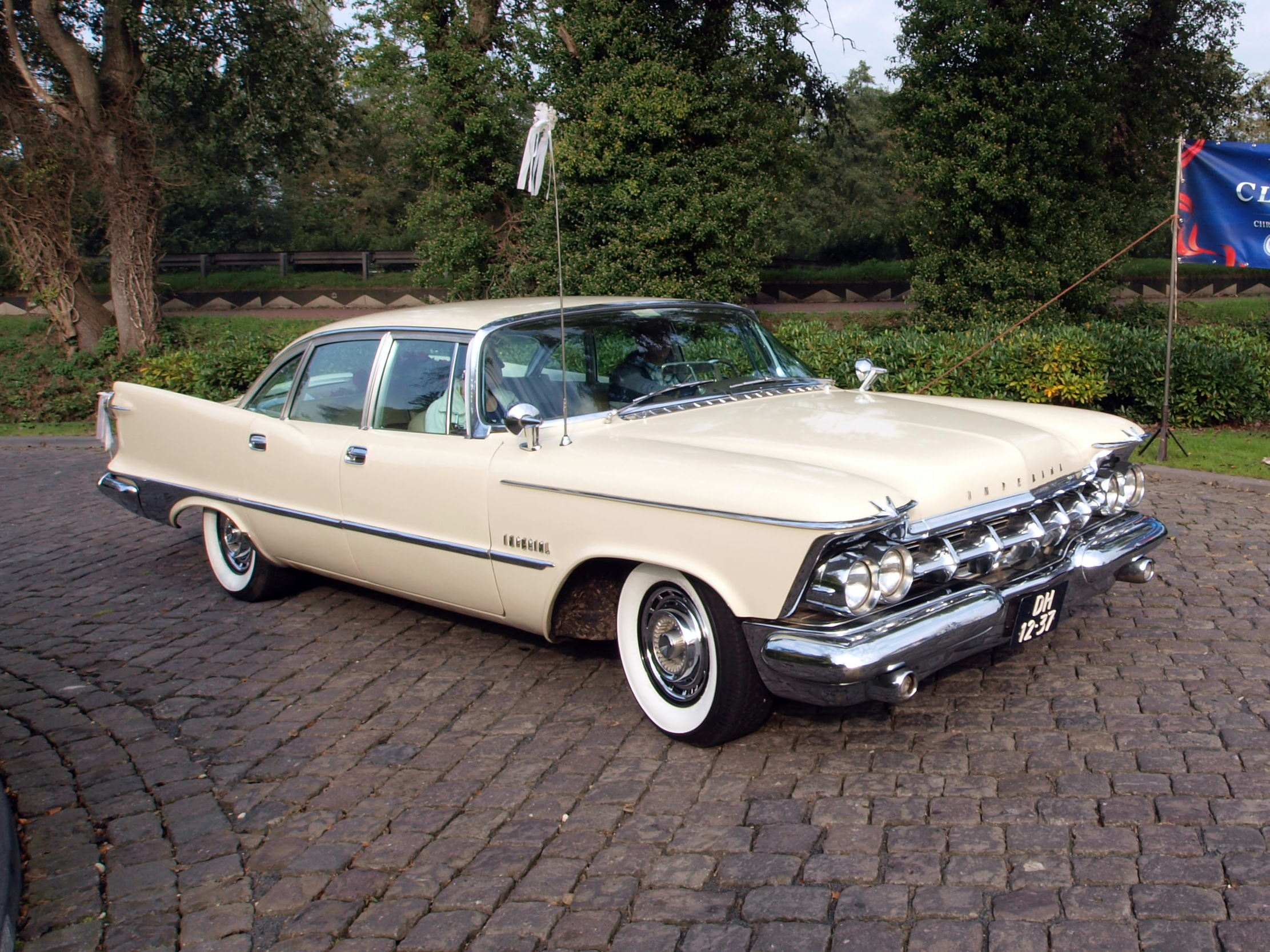 Photographed at the premmesis of the Louwman museum, The Hague, The Netherlands. OLYMPUS DIGITAL CAMERA